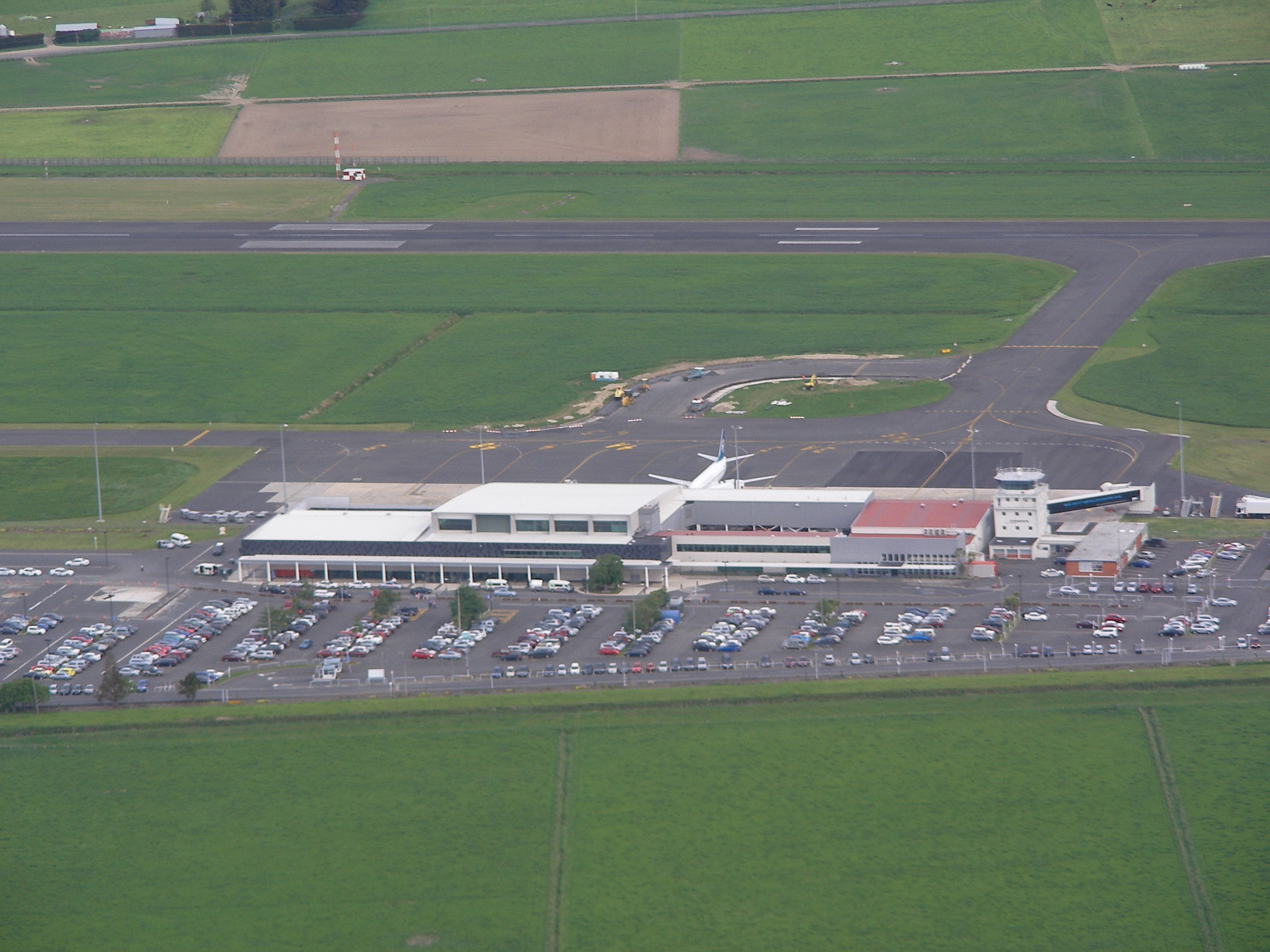 Dunedin International Airport from the Air